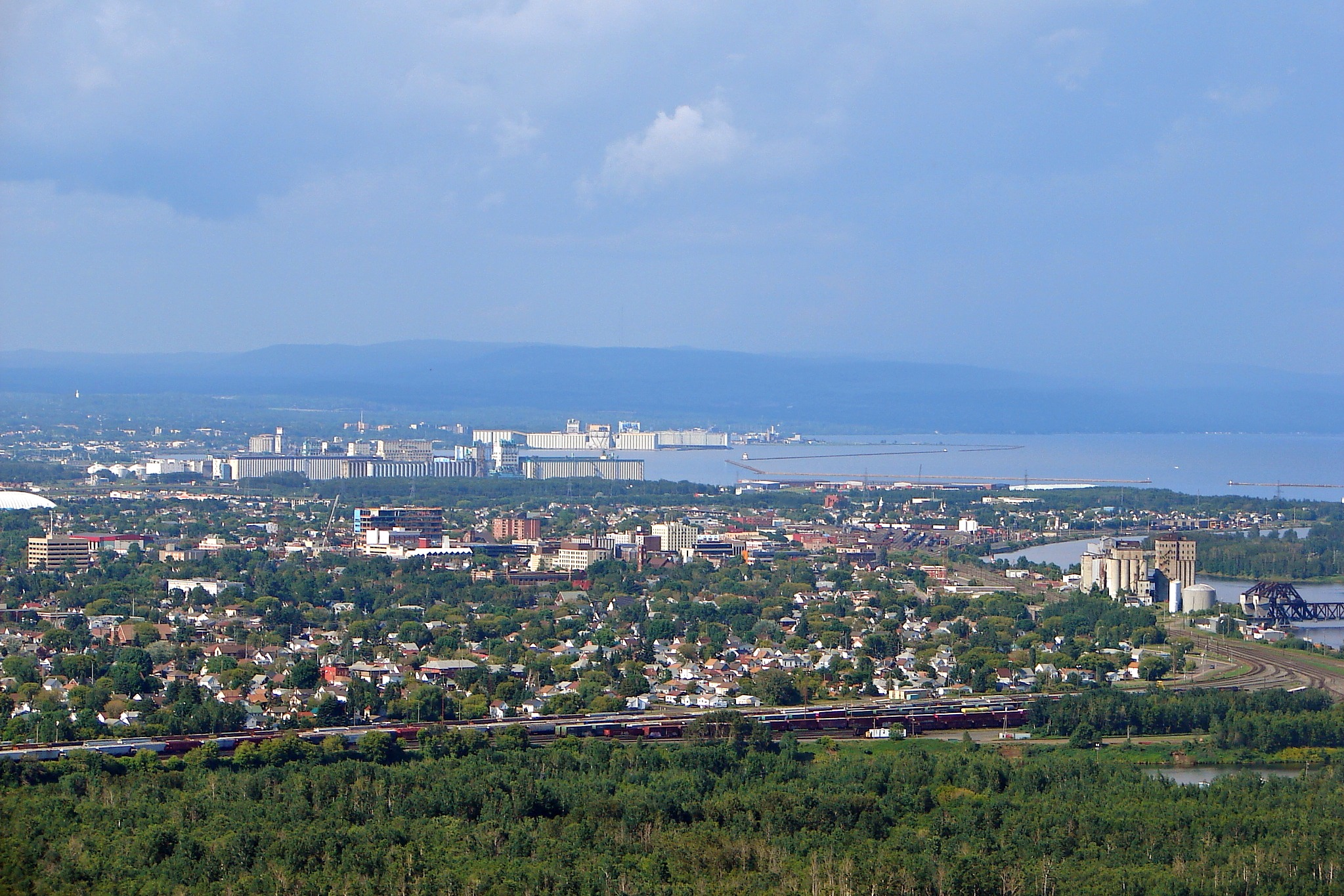 Thunder Bay (from Mount McKay), Ontario, Canada